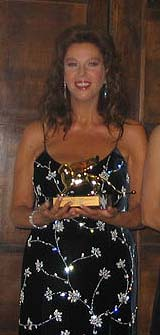 Stefania Sandrelli with the Golden Lion Honorary Award at the 62nd Venice International Film Festival 2005